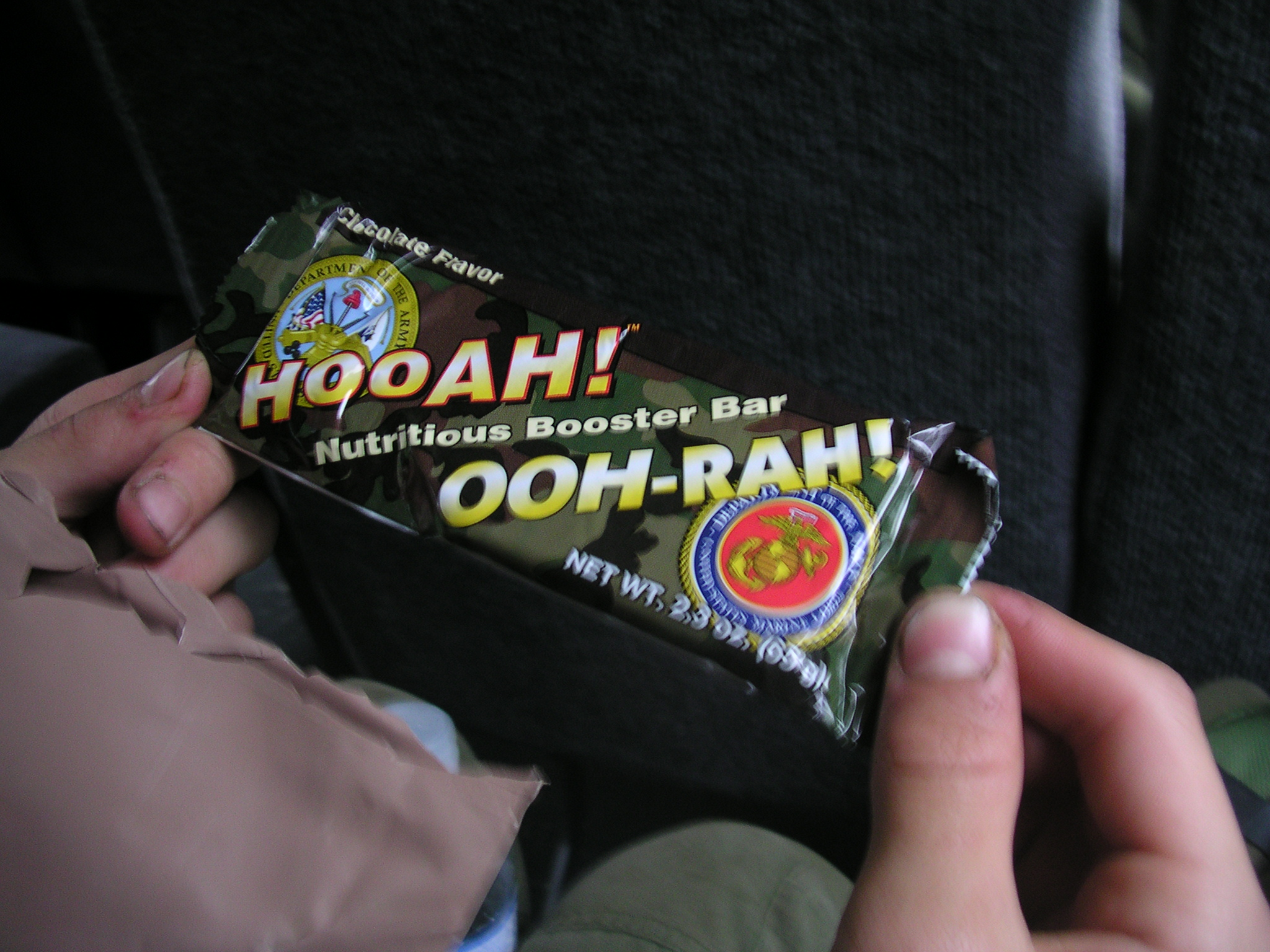 This is an example of the "Hooah" bar as packaged in the MRE's.